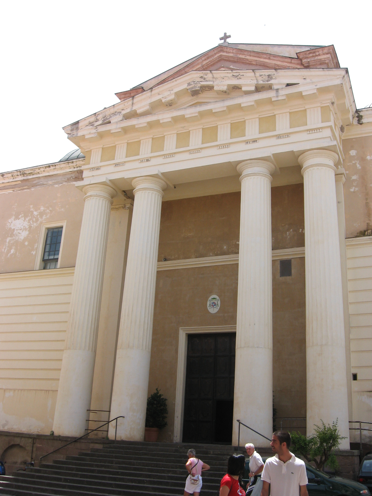 Alghero